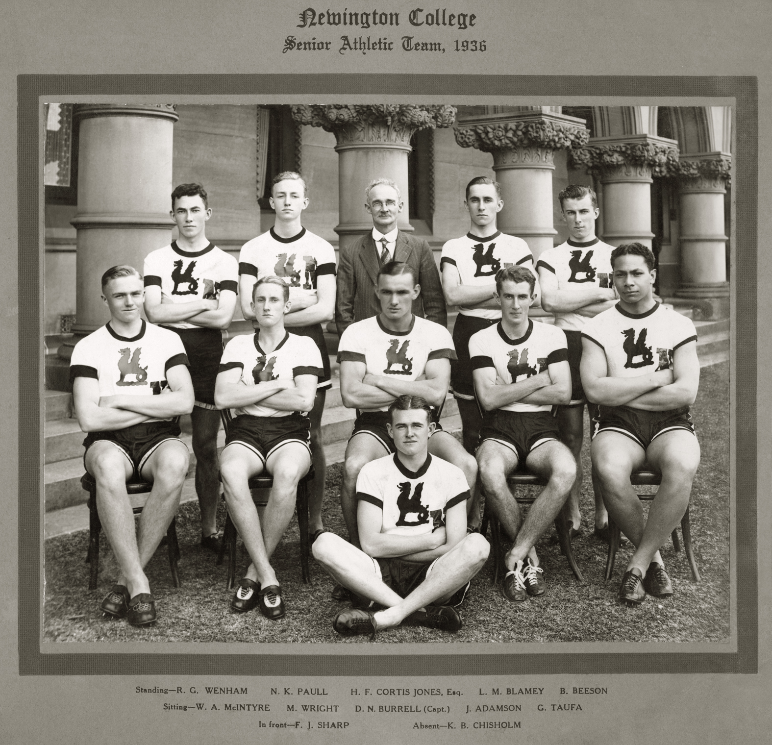 HRH Crown Prince Taufa’ahau (sitting far right) in the 1936. Photo of the Newington College Senior Athletics Team.